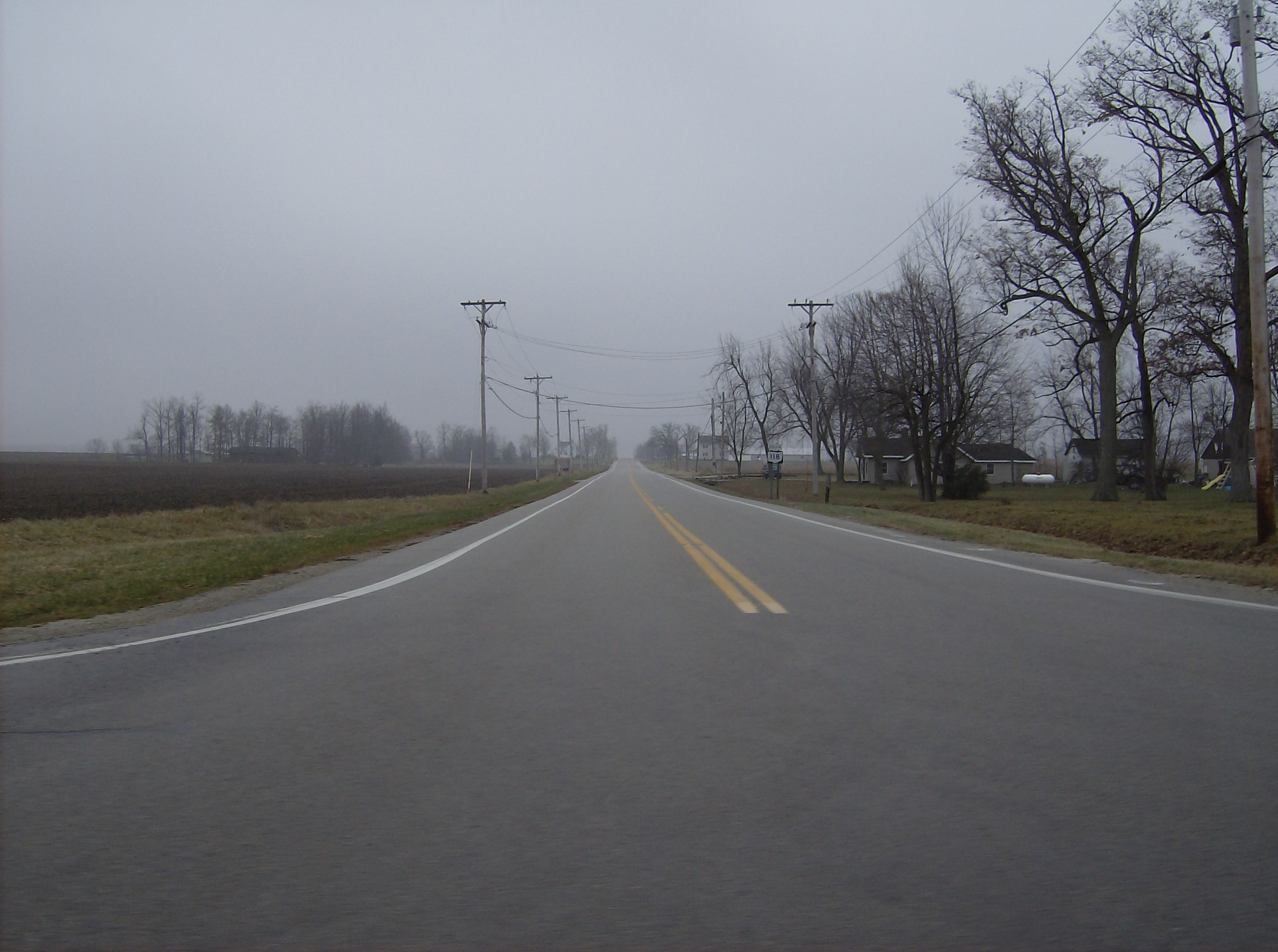 Along southbound State Route 118 at its intersection with State Route 705 in northeastern Allen Township, Darke County, Ohio, United States.